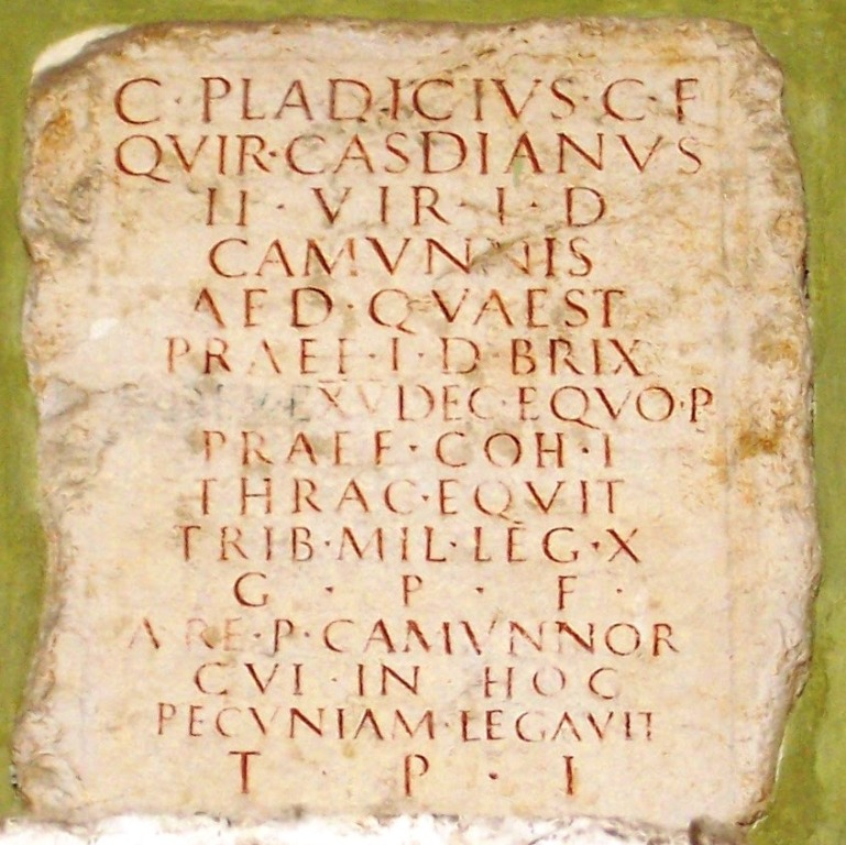 Brescia, Capitolium: Paint of an inscription which origins from Cividate Camuno, Val Camonica.